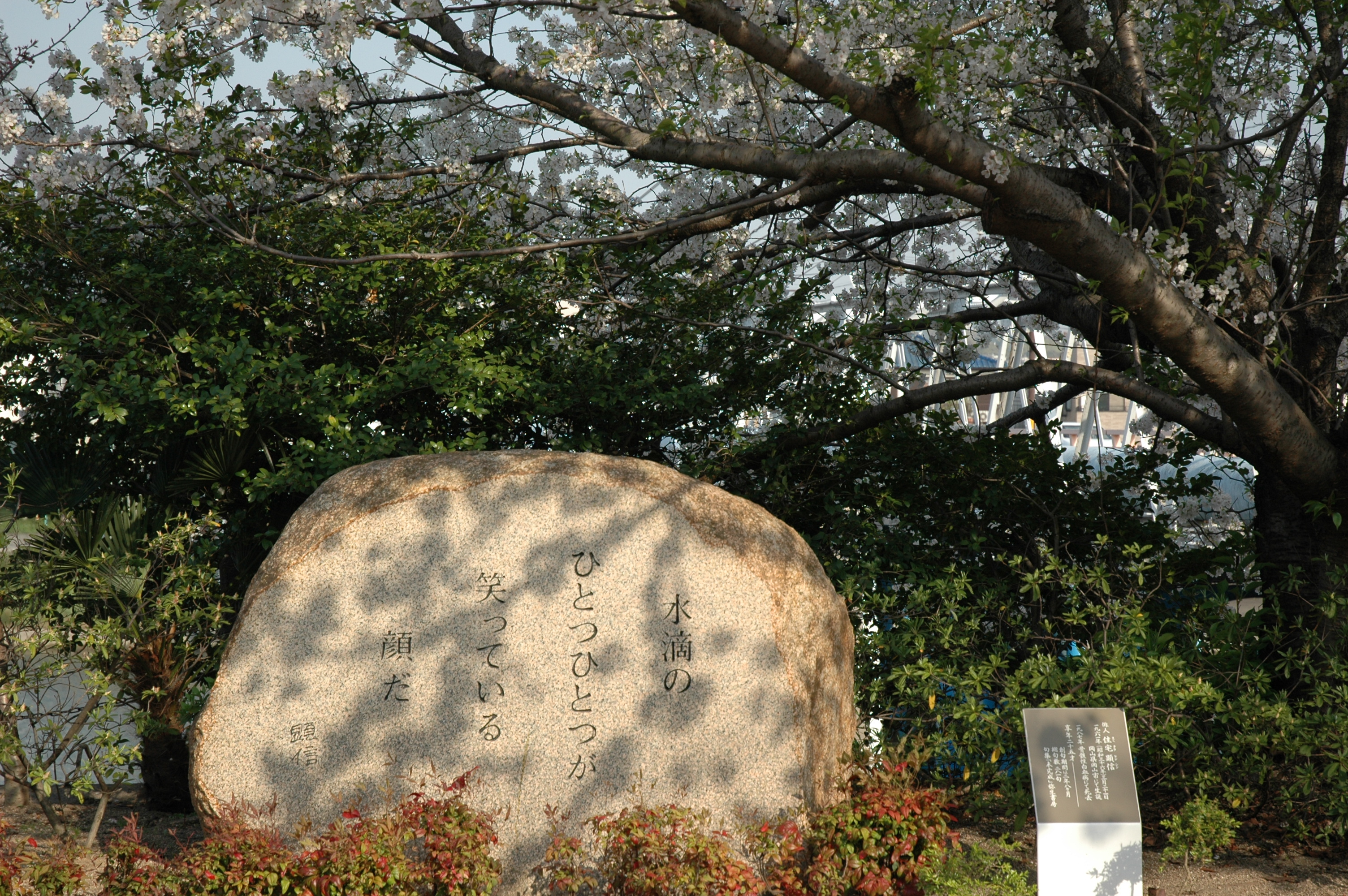 Stone monument dedicated to Japanese haiku poet Kenshin (SUMITAKU Kenshin, 1961-1987). Located under a cherry tree on the bank of Asahigawa River, at the start of the Kyobashi Bridge, in Okayama, Okayama Prefecture, Japan. (See below for a transcription.)